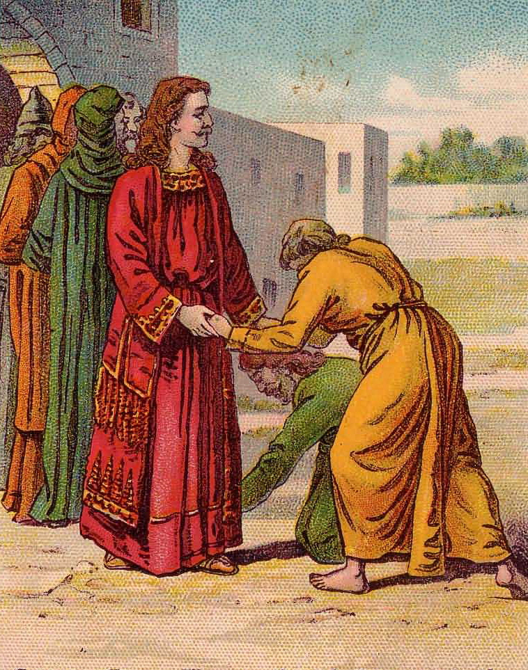 "Honor thy father and thy mother, that thy days may be long upon the land which the Lord thy God giveth thee." Exodus 20:12 (King James version), illustration from a Bible card published by the Providence Lithograph Company